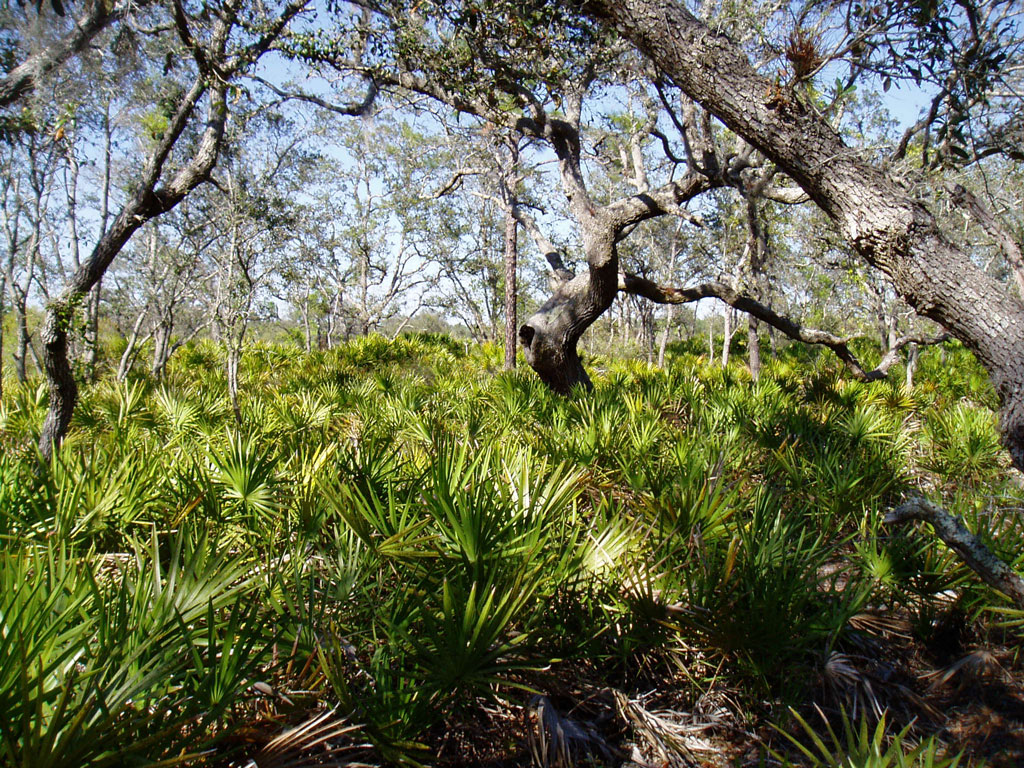 Image of Saw Palmetto taken in Highlands County, Florida, near Venus.